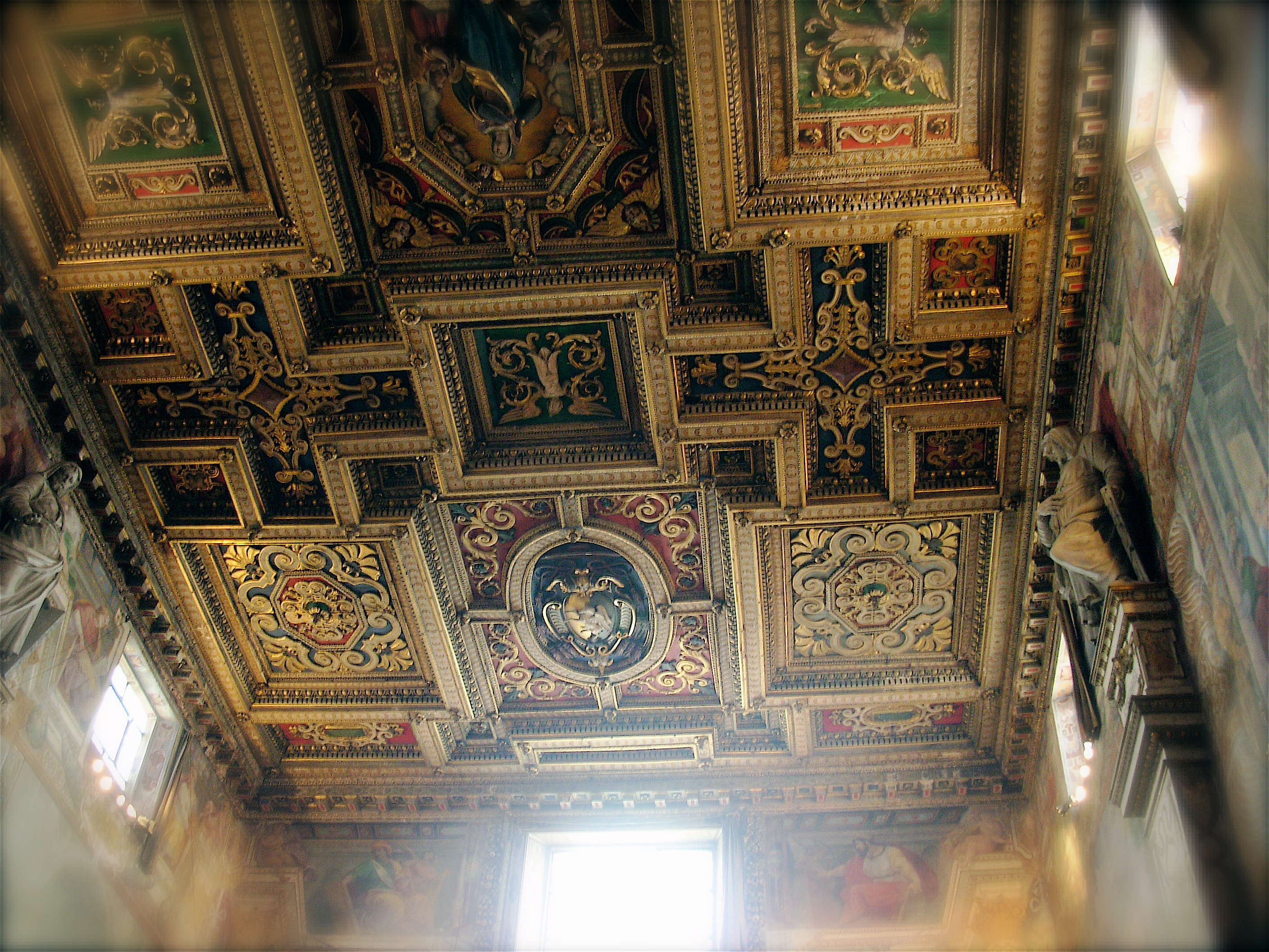 Ceiling designed by Carlo Maderno (1556 - 1629) who created the facade of St. Peter's Basilica. This church is off the beaten track but fabulous inside.